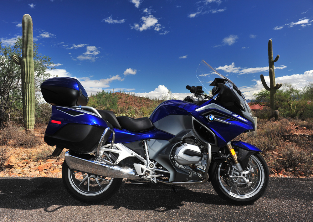 Right side of a 2015 BMW R1200RT